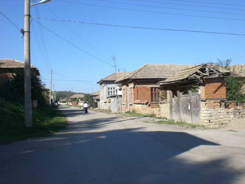 A street in village Osikovo, Popovo municipality, Bulgaria